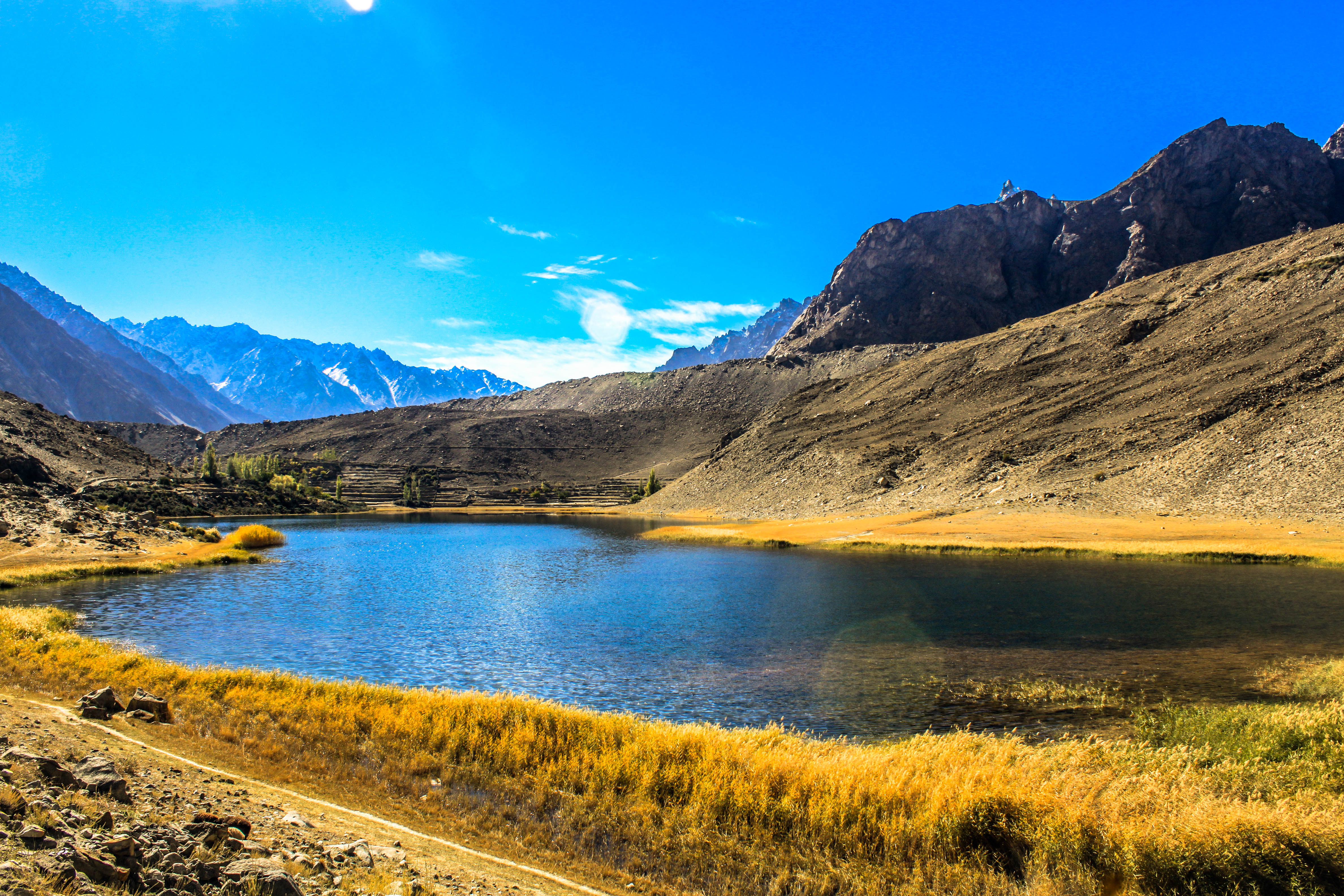 Borith Lake, Gulmit Valley, Hunza Nagar Image Taken October 2013